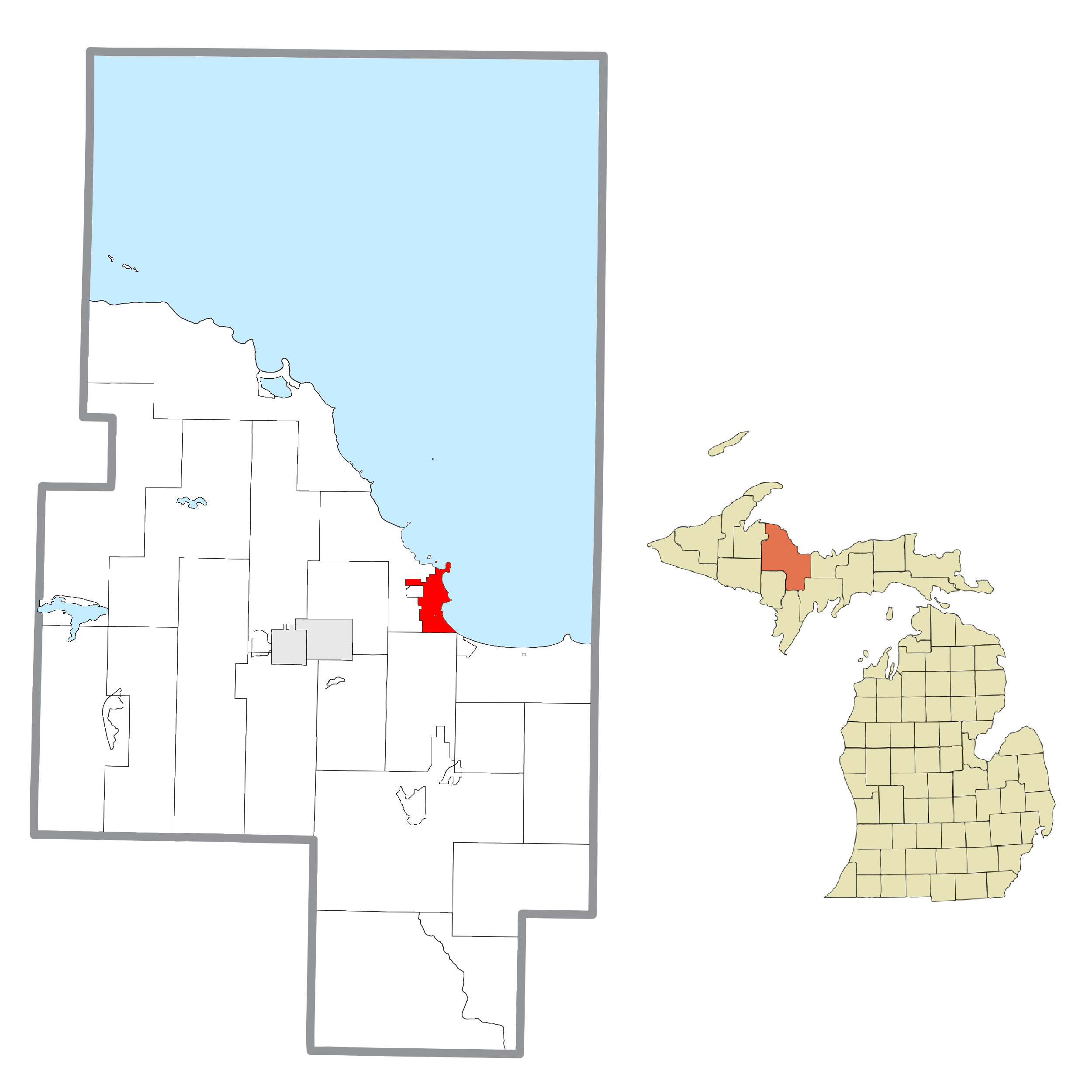 Marquette, MI